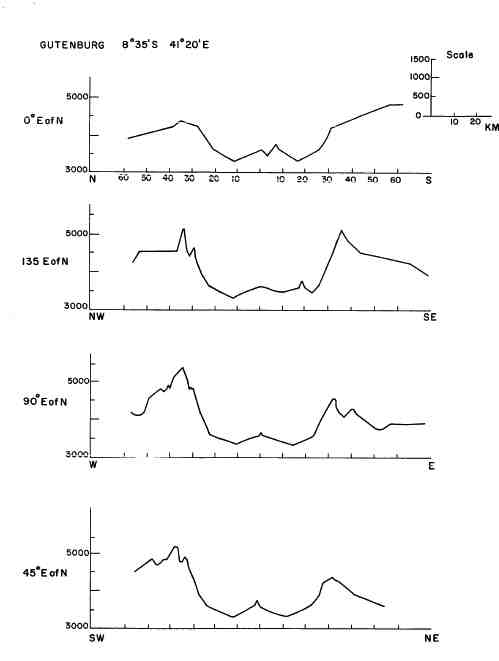 Gutenberg crater cross section